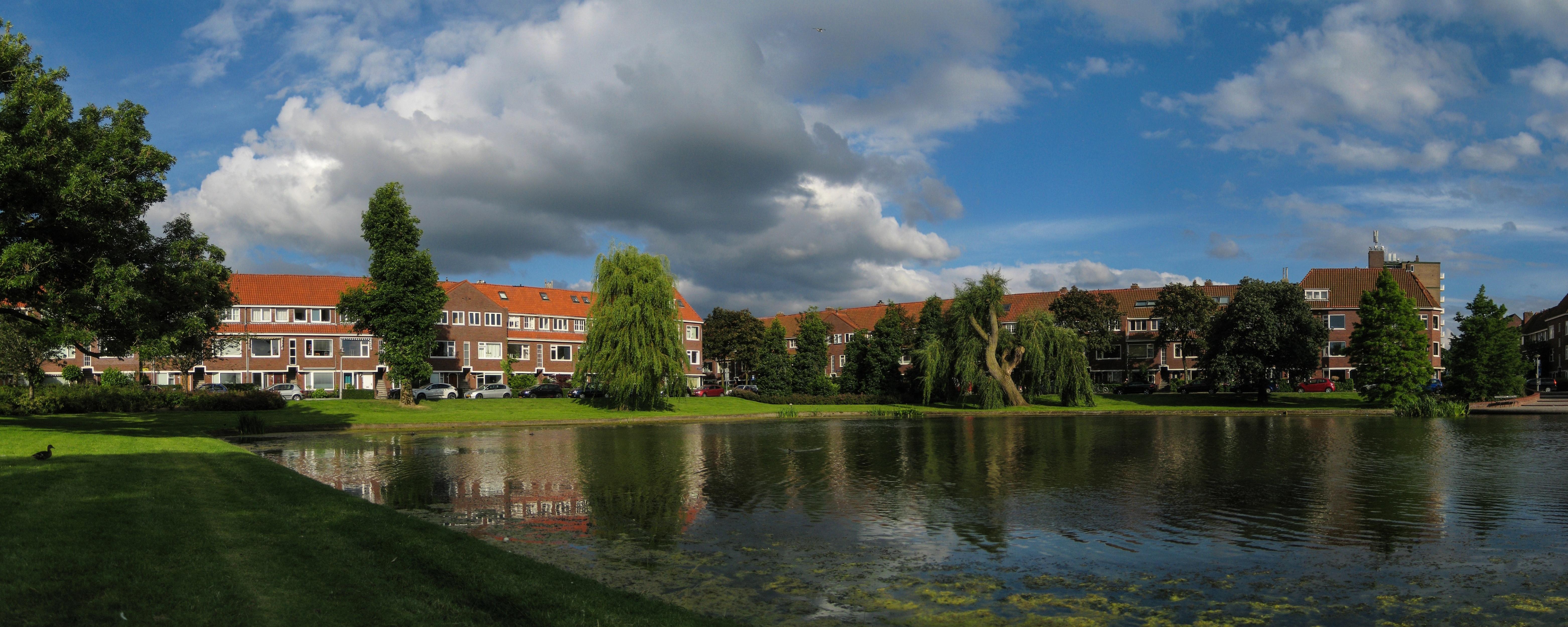 Pond at the Van Brakelplein, a square in the Dutch city of Groningen.